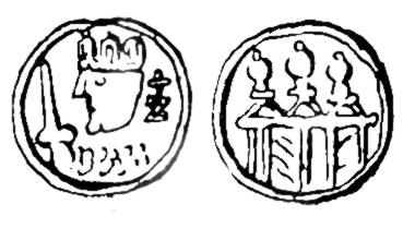 "Royal" denarius of Boleslaus II of Poland